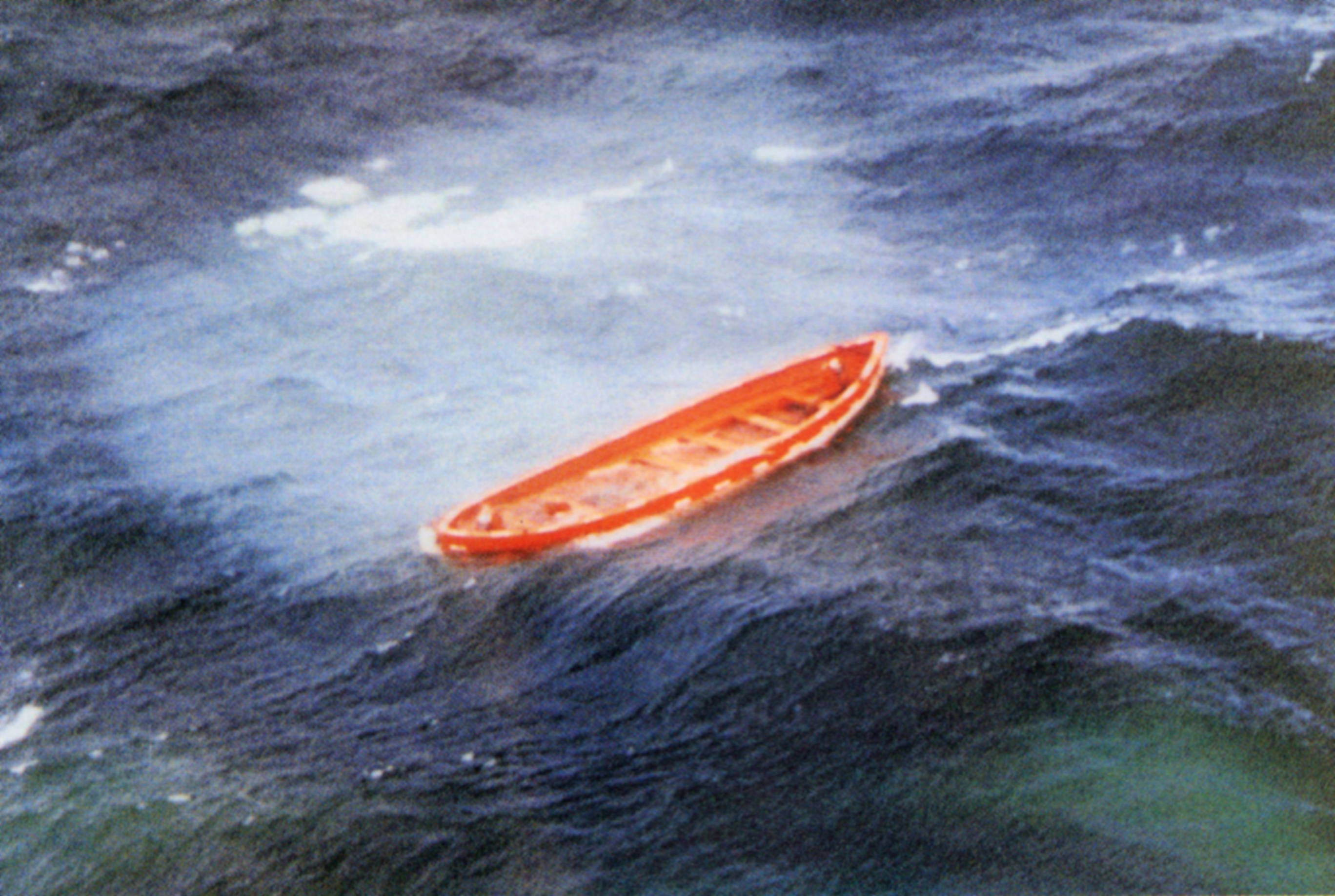 Lifeboat from MS Estonia.